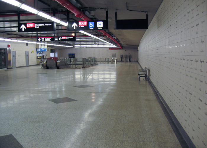 Mezzanine level at Leslie TTC subway station in Toronto